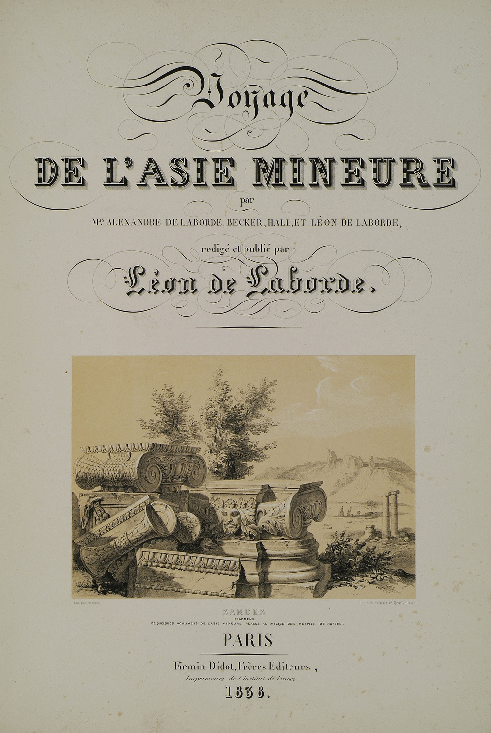 Emmanuel Simon Joseph Léon de Laborde. Voyage de l'Asie Mineure par Alexandre de Laborde, Becker, Hall, et L. de Laborde, rédigé et publié par Léon de Laborde, Paris, Firmin Didot, 1838.